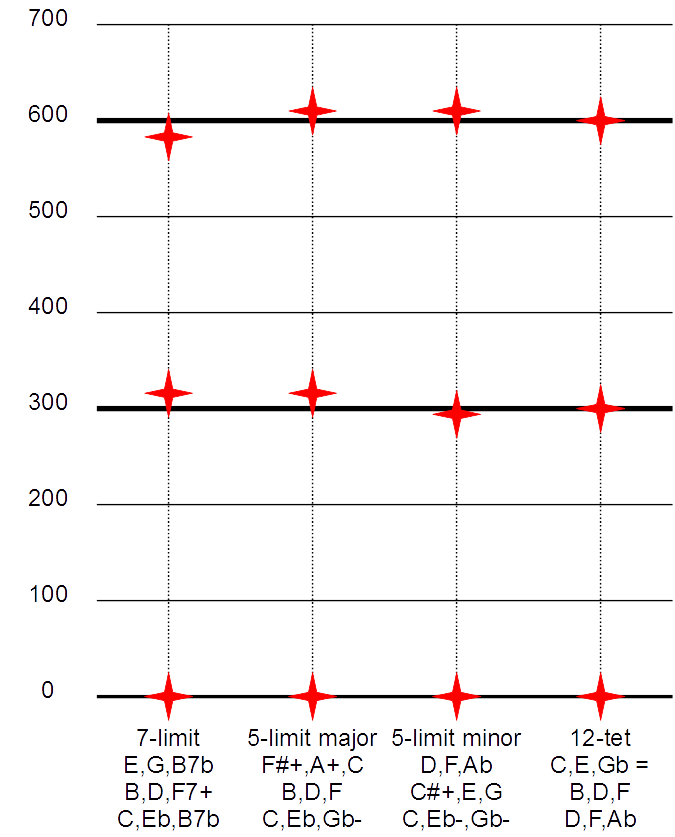 Comparison of diminished triad tunings. 7-limit: 5:6:7 = 0 : 315.64 : 582.51 cents. 5-limit major: 45:54:64 = 0 : 315.64 : 609.78 cents. 5-limit minor: 135:160:192 = 0 : 294.13 : 609.78 cents. 12-tet: 20/12:23/12:26/12 = 0 : 300 : 600 cents.